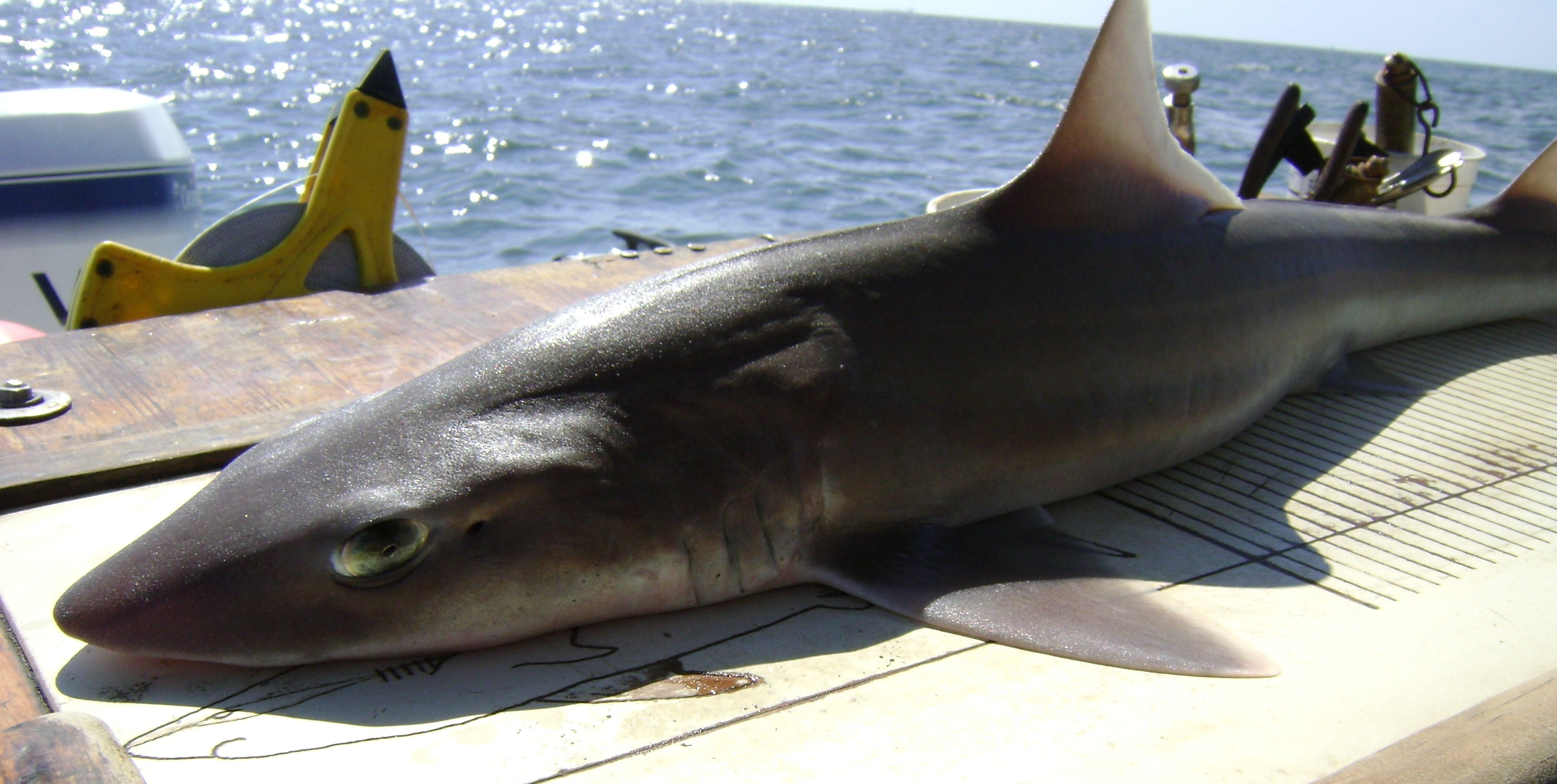 Smooth dogfish (Mustelus canis)